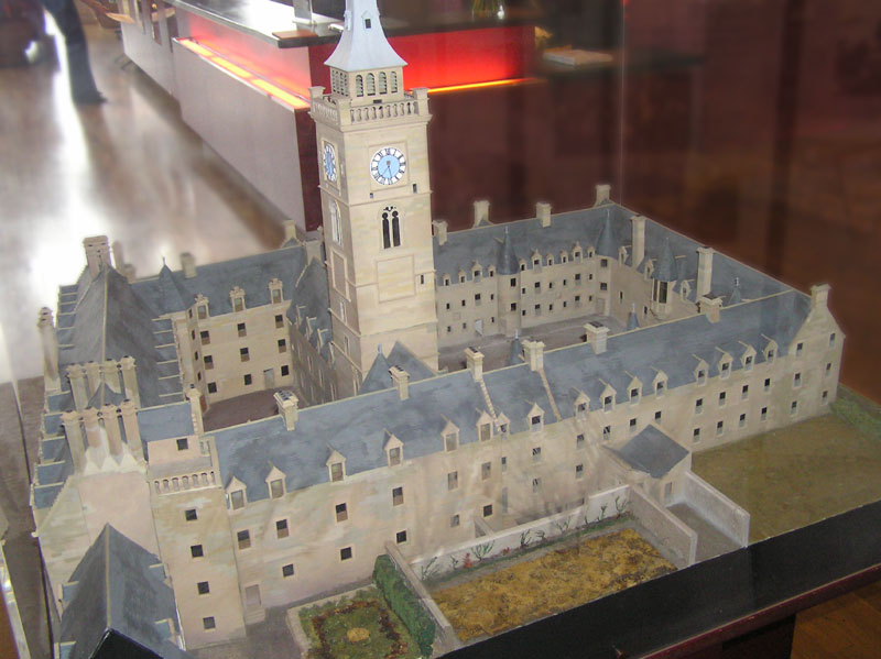 A model of the original buildings of the University of Glasgow in their old location on the High Street of Glasgow. This model is on display in the University's Hunterian Museum. Photo taken May 7th 2004 by Finlay McWalter. The museum's proctor told me it was okay to take the photograph.